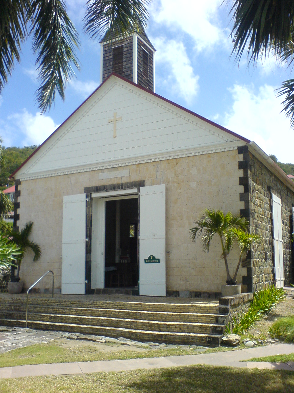 Bartholomew's Anglican Church on St Barth, F.W.I. (outside)